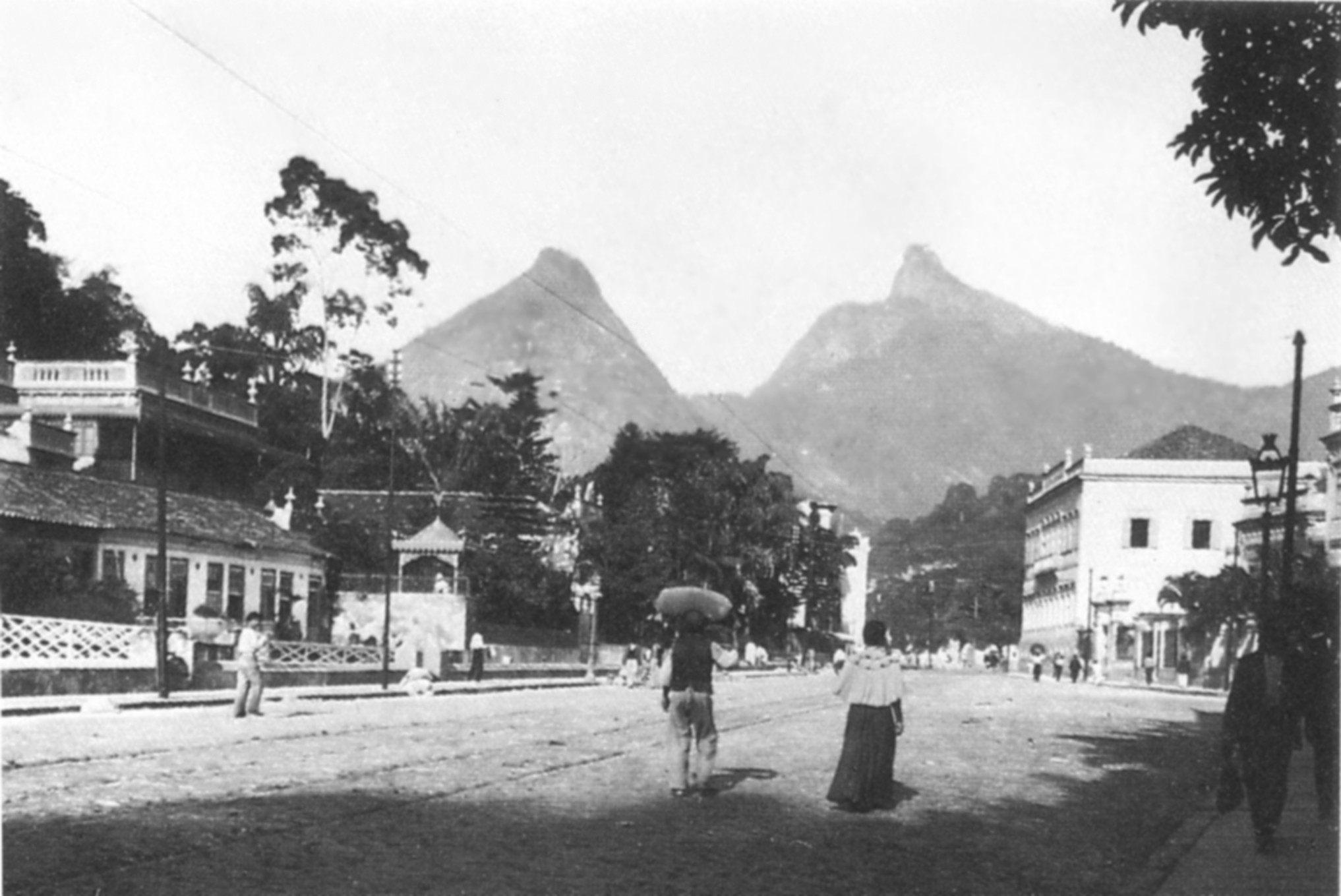 Cosme Velho, Rio de Janeiro city, sec. XIX